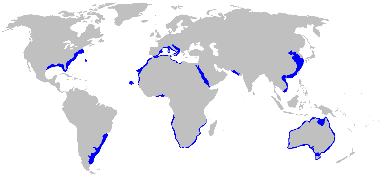 Distribution map for Carcharias taurus